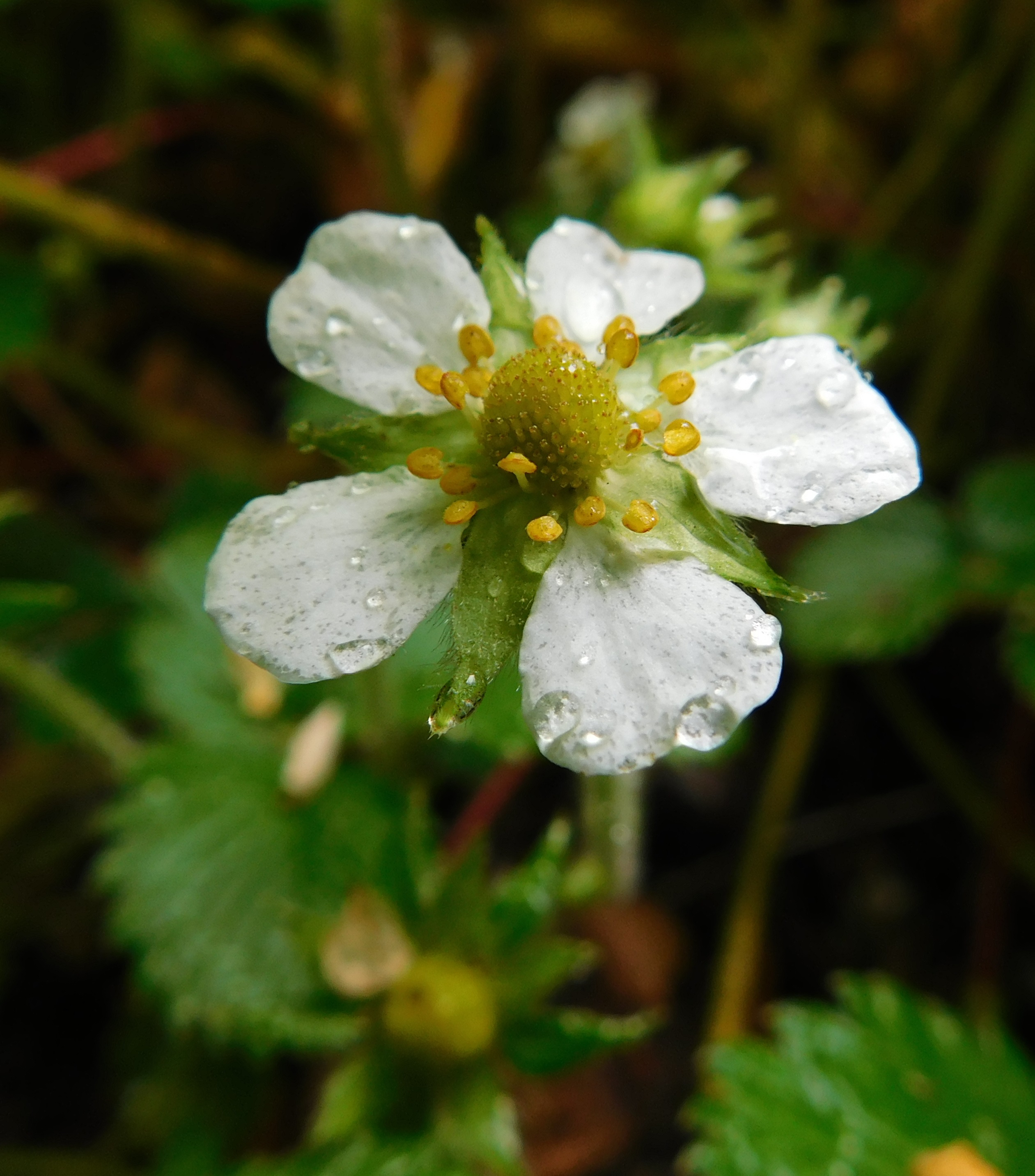 Fragaria moupinensis at the University of California Botanical Garden, Berkeley, California, USA. Identified by the garden signage.